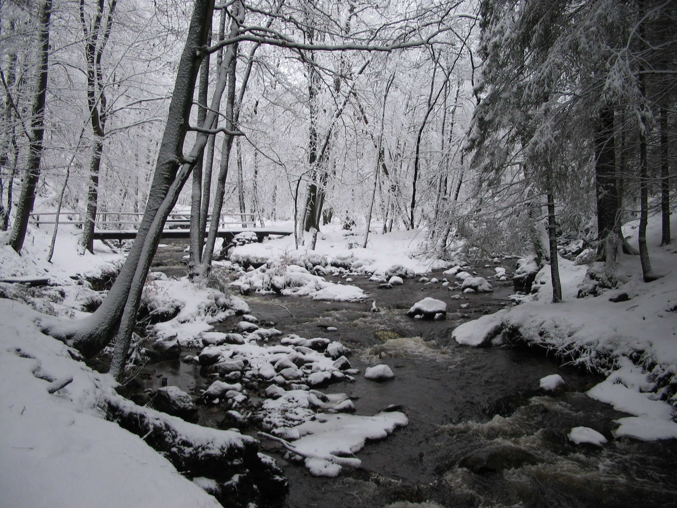 Winter picture of the "Hoëgne" (small river in Wallonia, that ends in the "Vesdre").